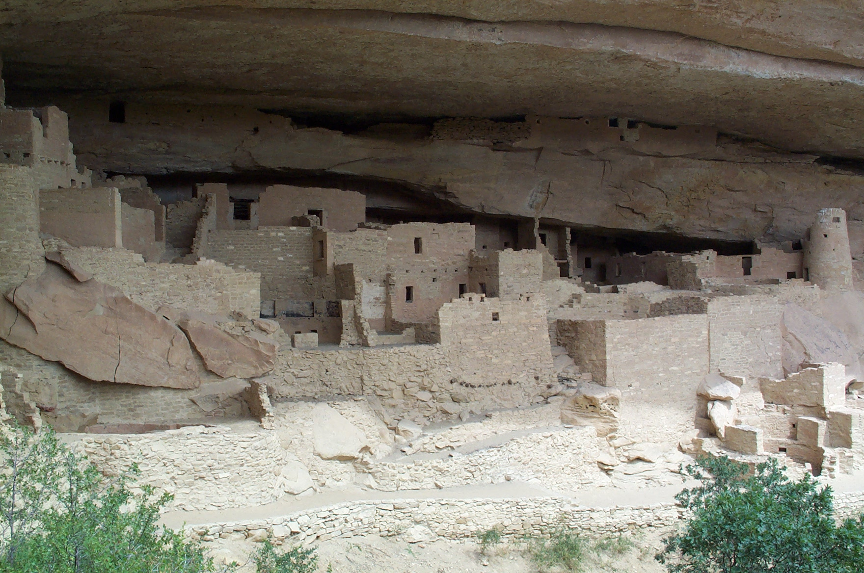 Cliff Palace, Mesa Verde National Park